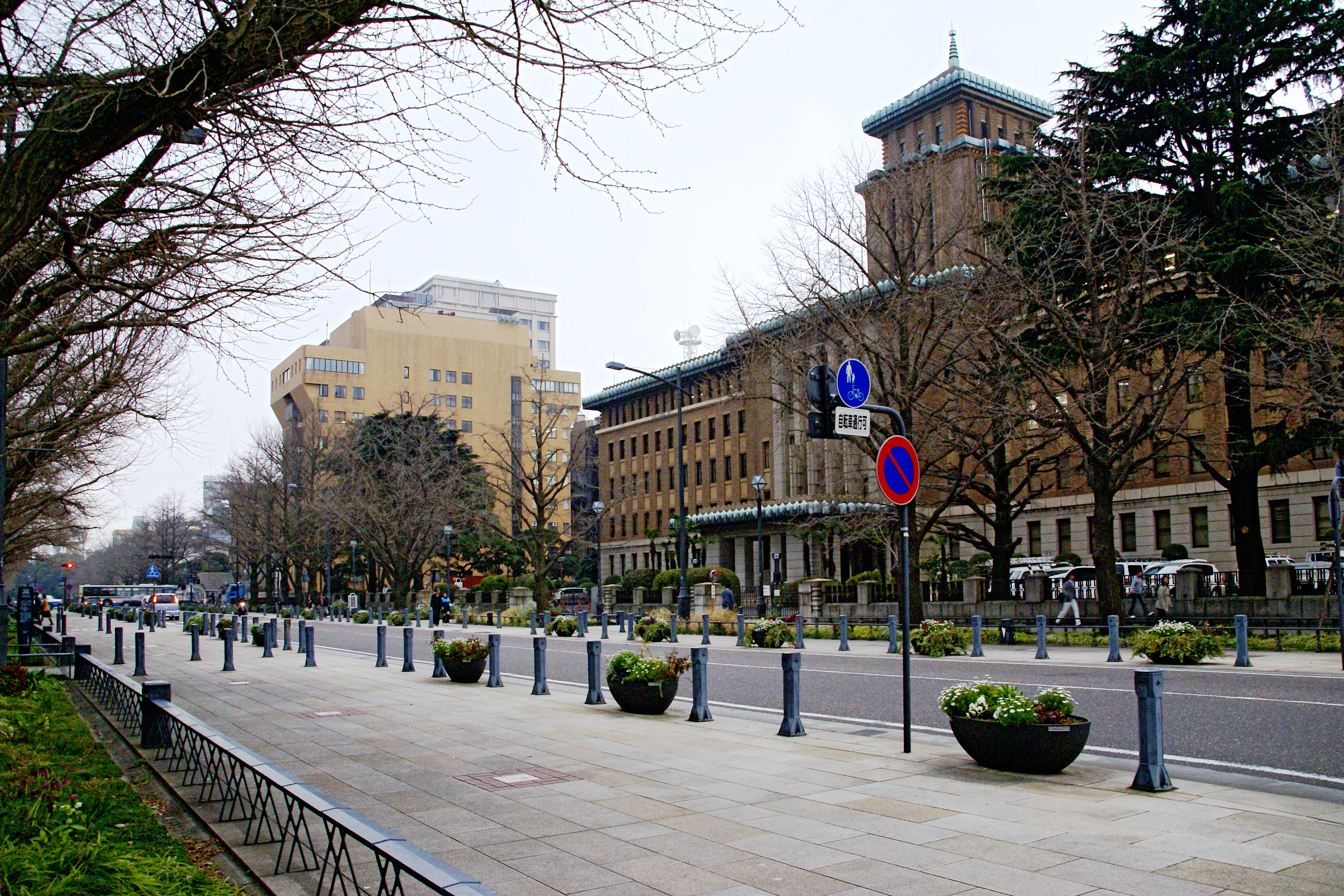 Kanagawa Prefectural Office in Yokohama, Kanagawa prefecture, Japan